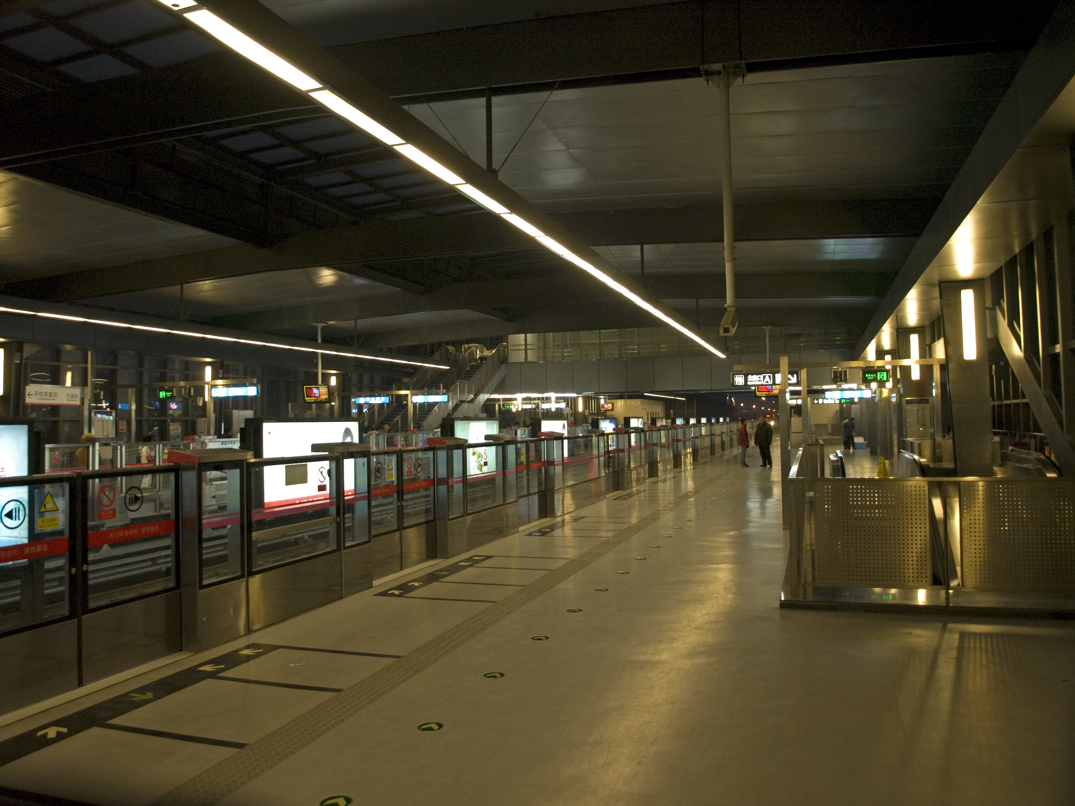 Wanyuanjie station, Beijing Subway